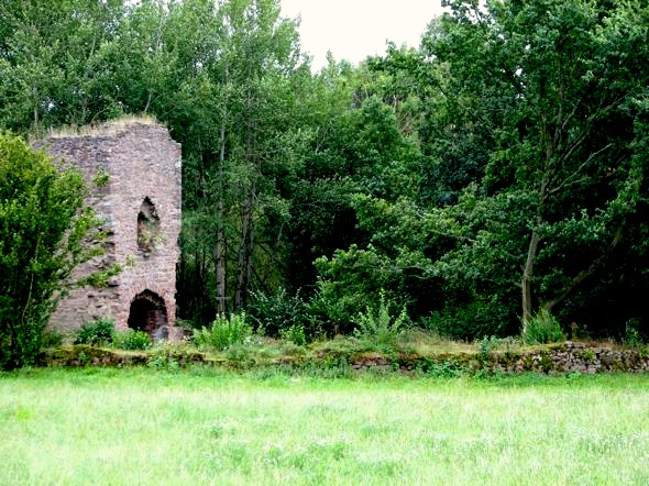 Foto of the ruin "Mauerschaedel" near the village Filke - Bavaria - Thuringia - Germany